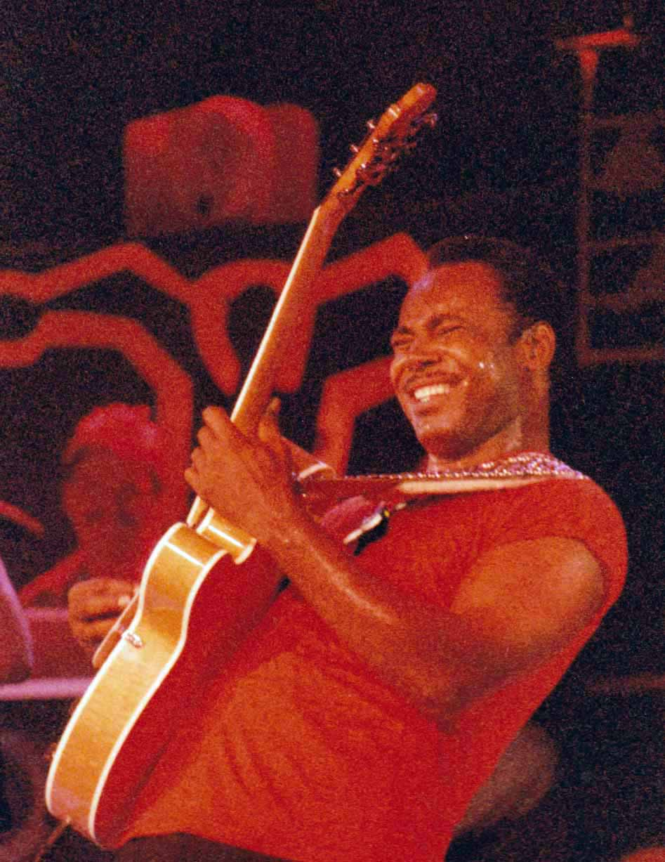 Georges Benson in 1986 at Montreux Jazz Festival.